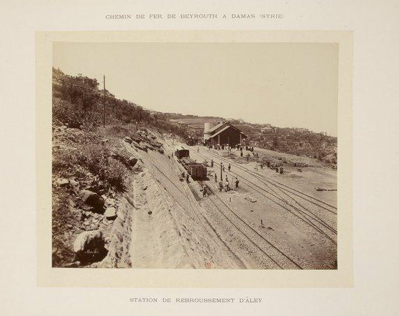 Station de rebroussement d'Aley